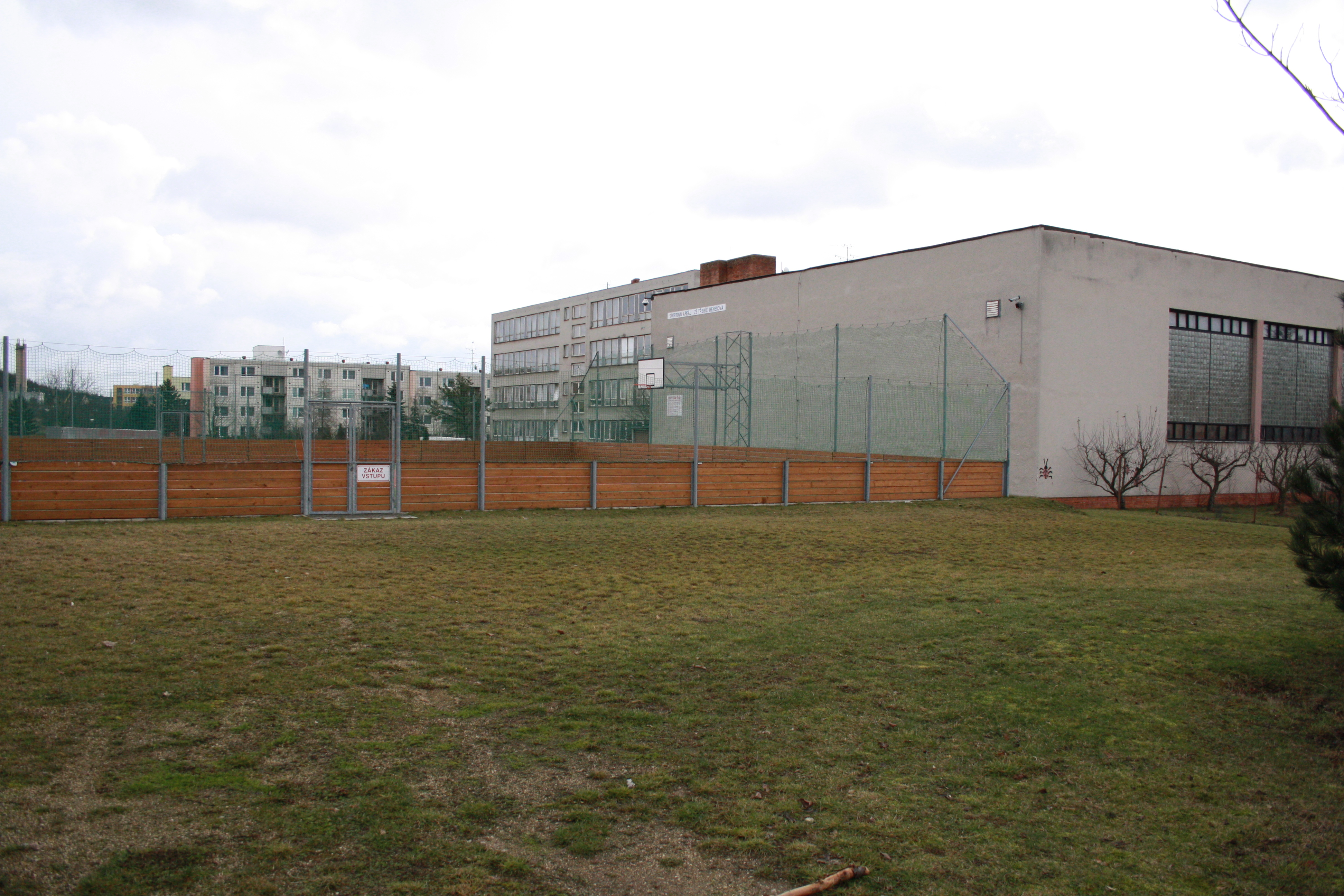 Sports centre of ZŠ Benešova, Třebíč, Czech Republic.